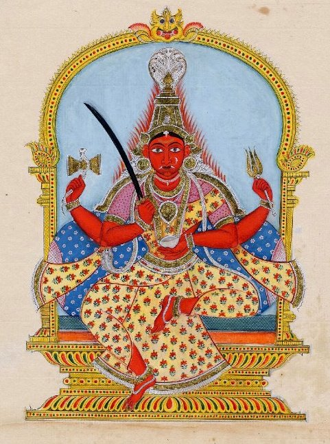 "Mariamman, sits in lalitasana on a throne. Around the throne is a metal frame culminating in a kirttimukha mask. Tongues of fire emanate from her head and shoulders, and two small fangs protrude from her mouth. In her upper right hand she carries a damaru (hourglass shaped drum), for which a cobra coiled around it serves as a handle. She holds a trishula (trident) in her upper left hand, a long sword in her lower right and a kapala (cup/alms bowl) in her lower left. A five-headed cobra rises above her crown."